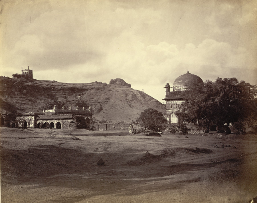 Malik Ambar's tomb Near Rozah(Khuldabad), Aurangabad.